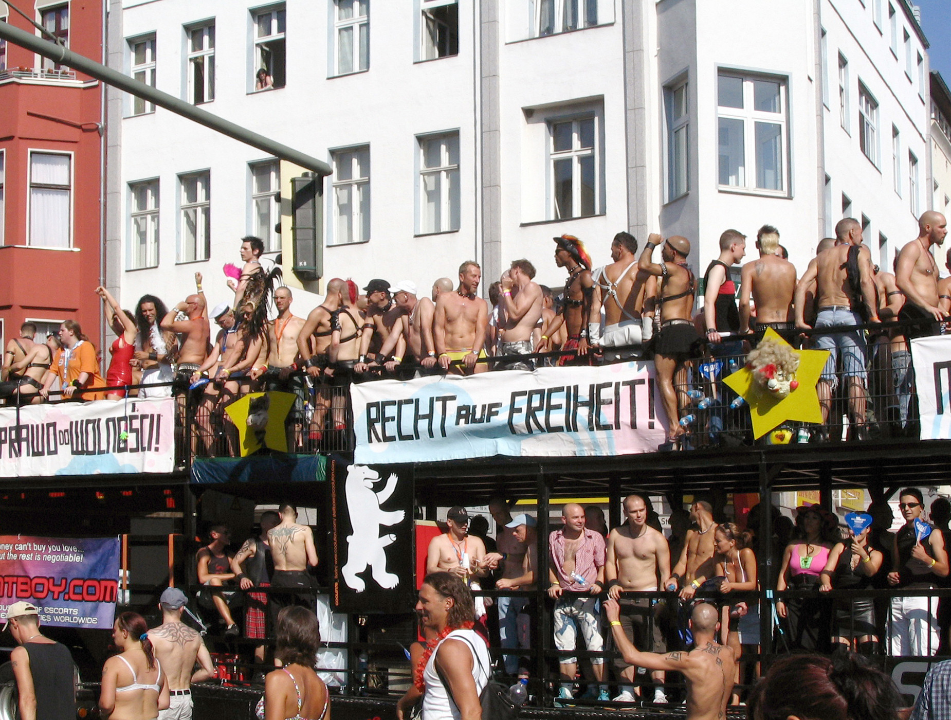 Christopher Street Day 2006 in Berlin.